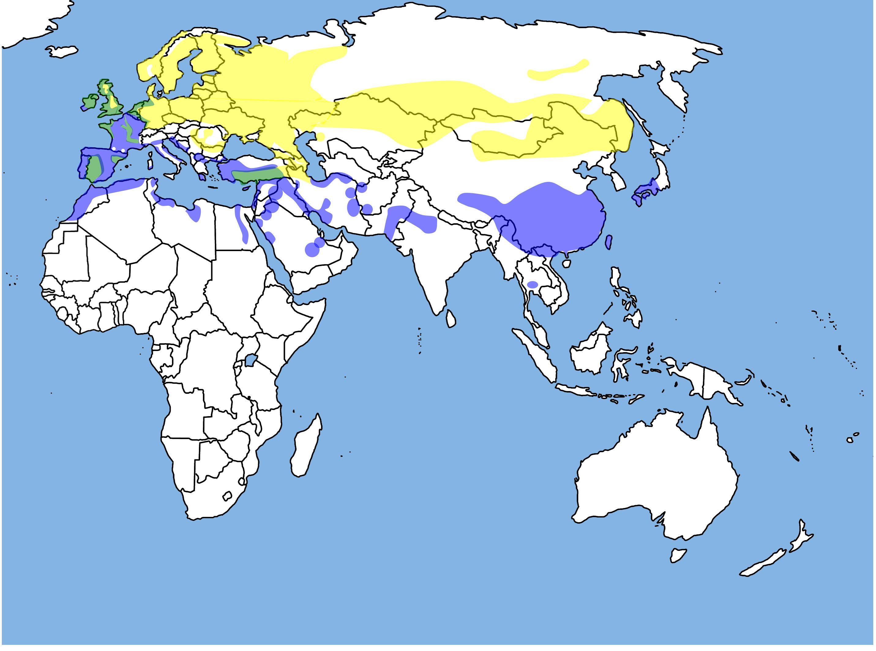 world distribution of Northern Lapwing (Vanellus vanellus)